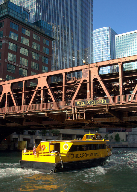 Chicago Water Taxi service is scheduled with multiple stops, operating in a similar manner to a bus